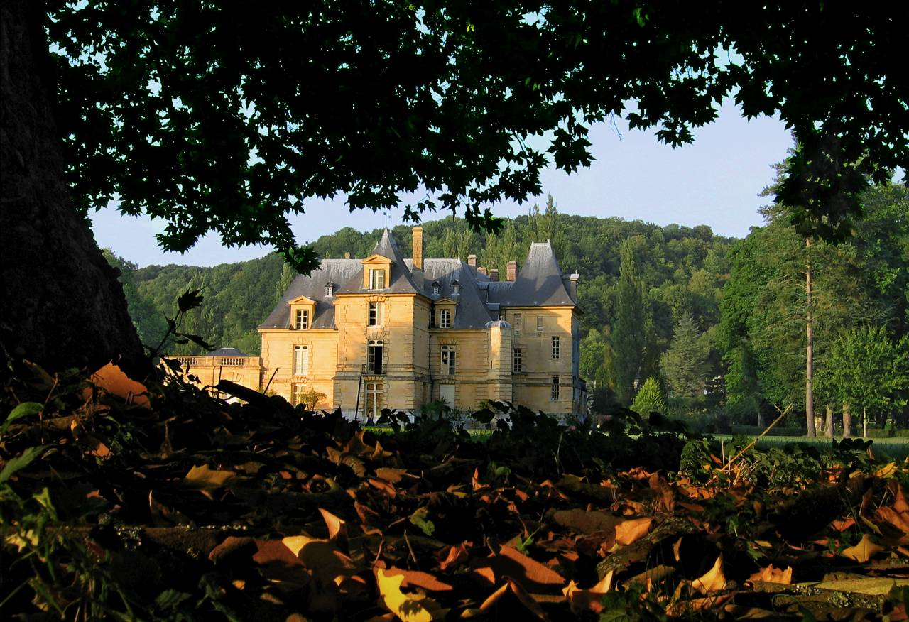 Acquigny castle. South face at sunset. Eure - Normandy - France